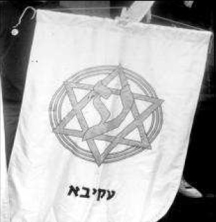 Flag of the Akiva youth movement in Kraków, Poland